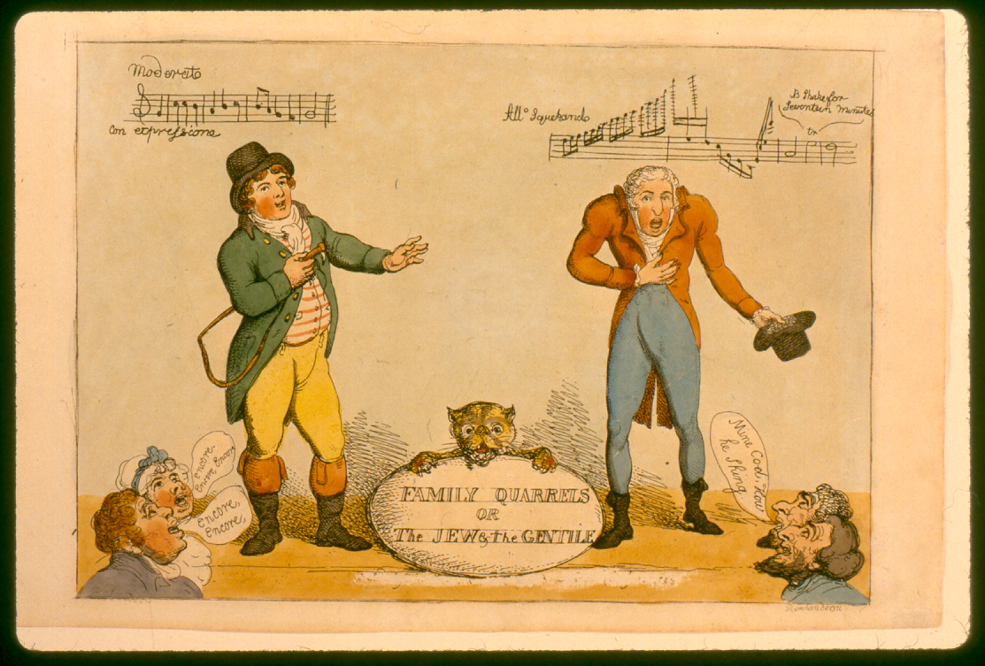 Cartoon by Thomas Rowlandson depicting the singers John Brhama and Charles Incledon